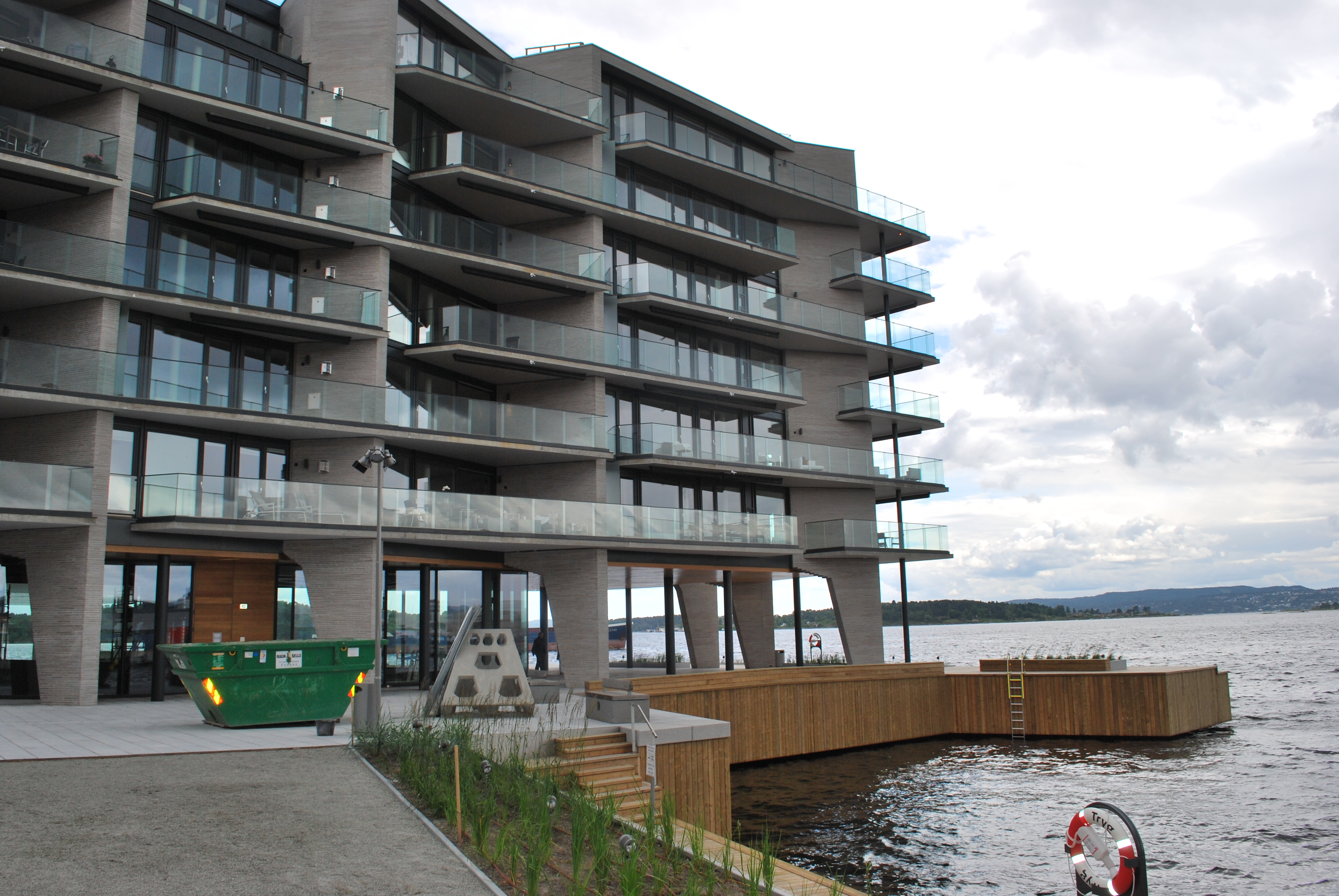 Tjuvholmen neighborhood, Fru Kroghs brygge, apartment Block 2013